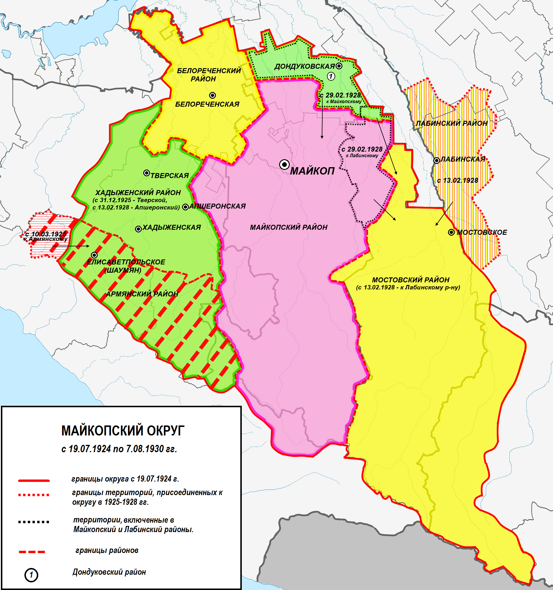 Maikop district (1924-30) гг.